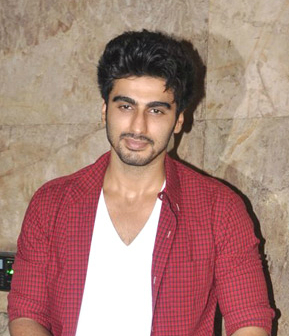 Arjun Kapoor at the screening of D-Day, 2013